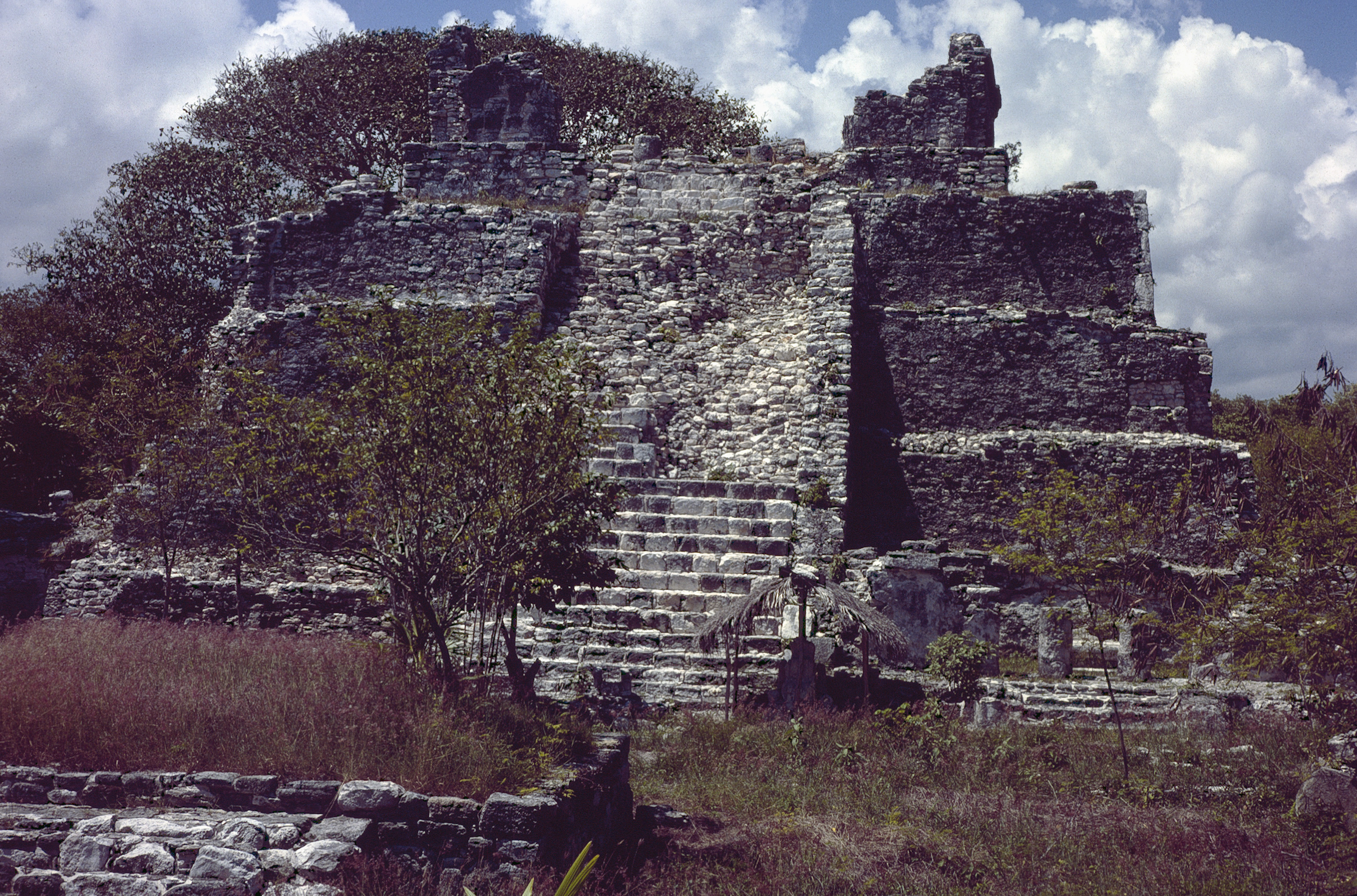 El Meco, Quintana Roo, Mexico: pyramid